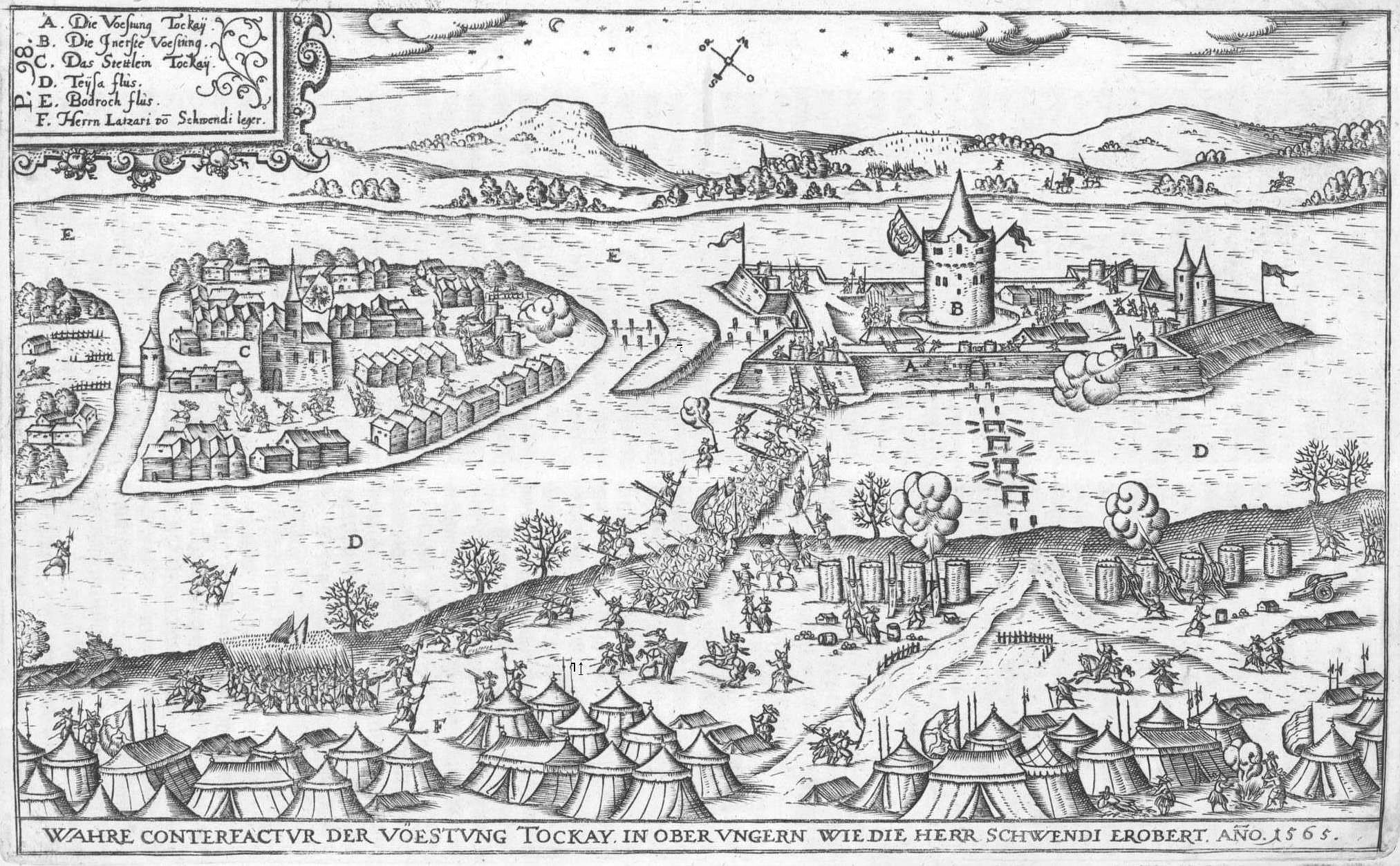 Tokaj, 1565 by Ortelius (Book ill.-1898)